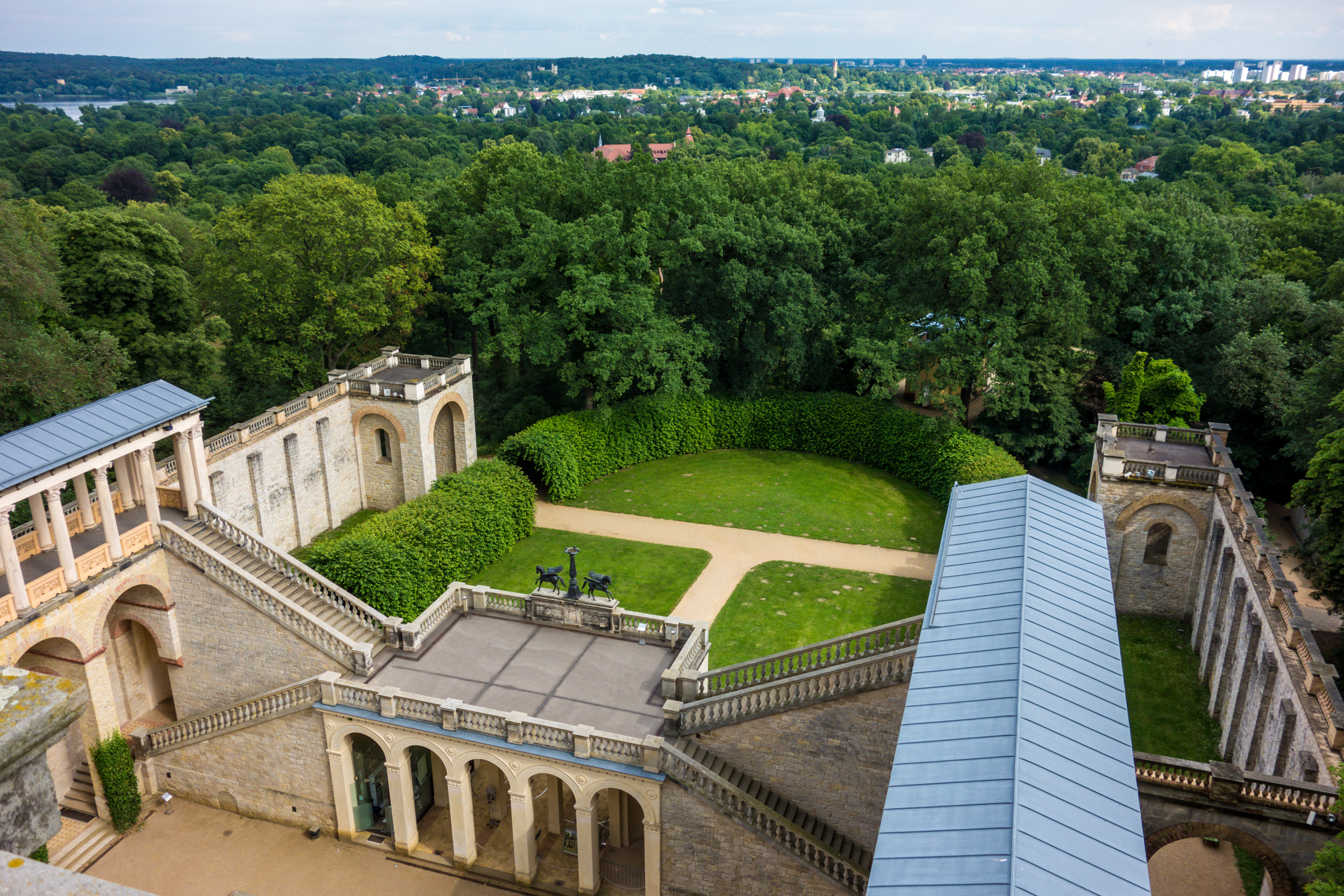 Germany - Potsdam, view to town from Belvedere on Pfmgstberg